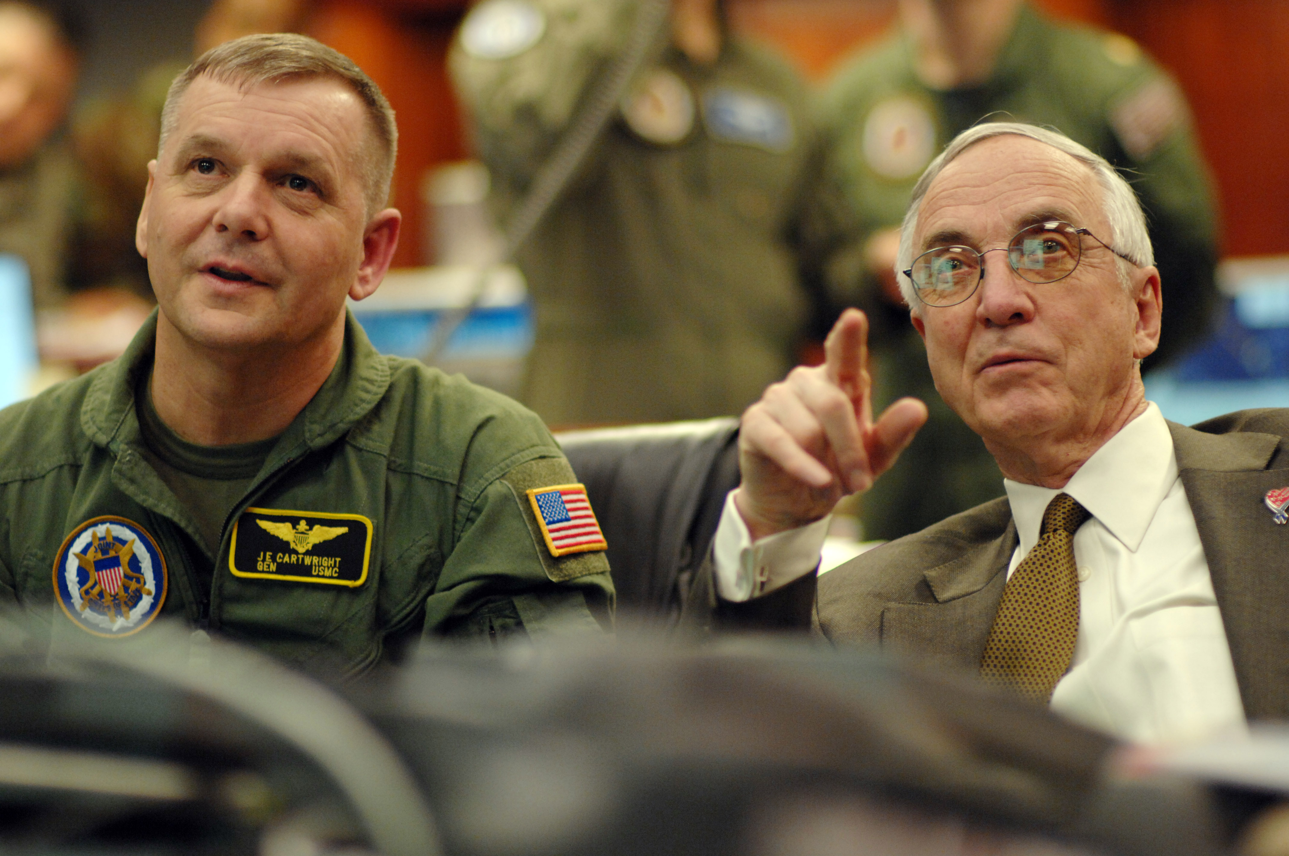 Vice Chairman of the Joint Chiefs of Staff James E. Cartwright and Deputy Secretary of Defense Gordon R. England follow the progress of USA 193. Original caption: Vice Chairman of the Joint Chiefs of Staff General James E. Cartwright (left), U.S. Marine Corps, and Deputy Secretary of Defense Gordon England follow the progress of a Standard Missile-3 as it races toward a non-functioning National Reconnaissance Office satellite in space over the Pacific Ocean on February 20, 2008. The USS Lake Erie (CG 70) launched the missile at the satellite orbiting in space at more than 17,000 mph over the Pacific. The objective is to rupture the satellite’s fuel tank to dissipate the approximately 1,000 pounds (453 kg) of hydrazine, a hazardous fuel which could pose a danger to people on earth, before it entered into earth's atmosphere.